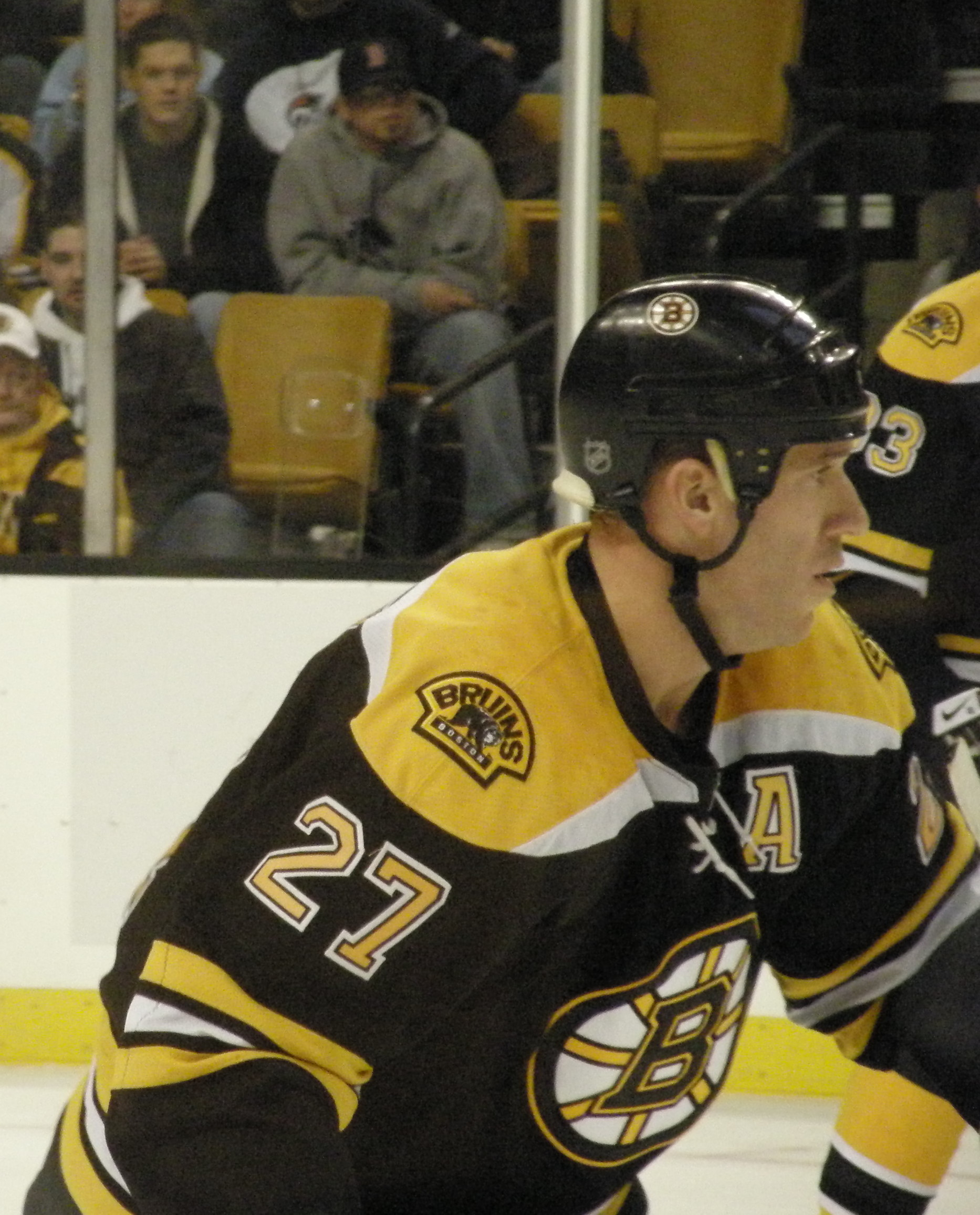 #27 Glen Muzz Murray, right wing for the Boston Bruins, Glen Murray